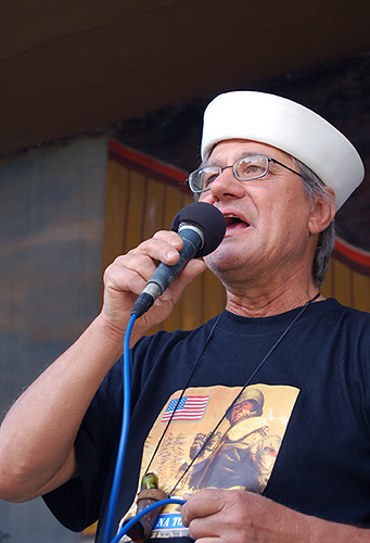 Picture of Czech country singer Jan Vyčítal at Mohelnický dostavník (country and folk festival).